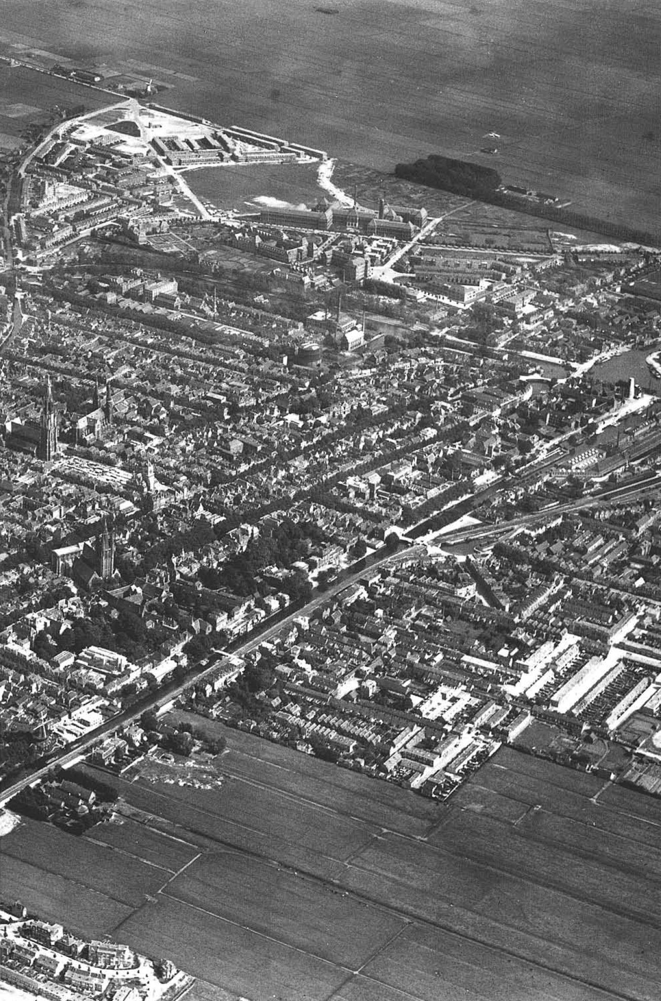 Delft luchtfoto, 1925